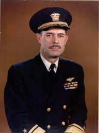 Herbert Spencer Duckworth